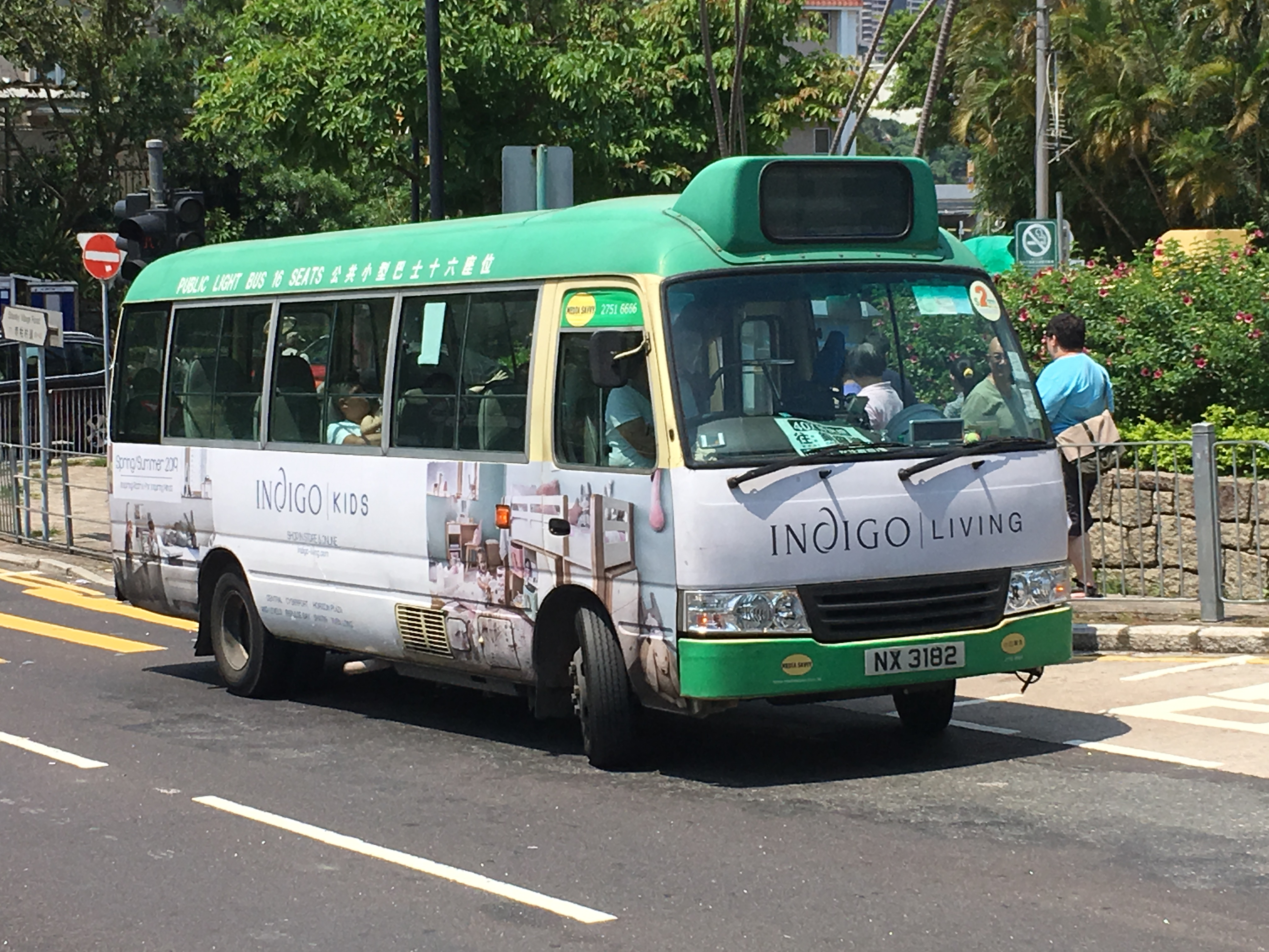 中文（香港）: This photo is taken in Stanley.